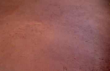 An image of an earthen floor. For the article of the same name.